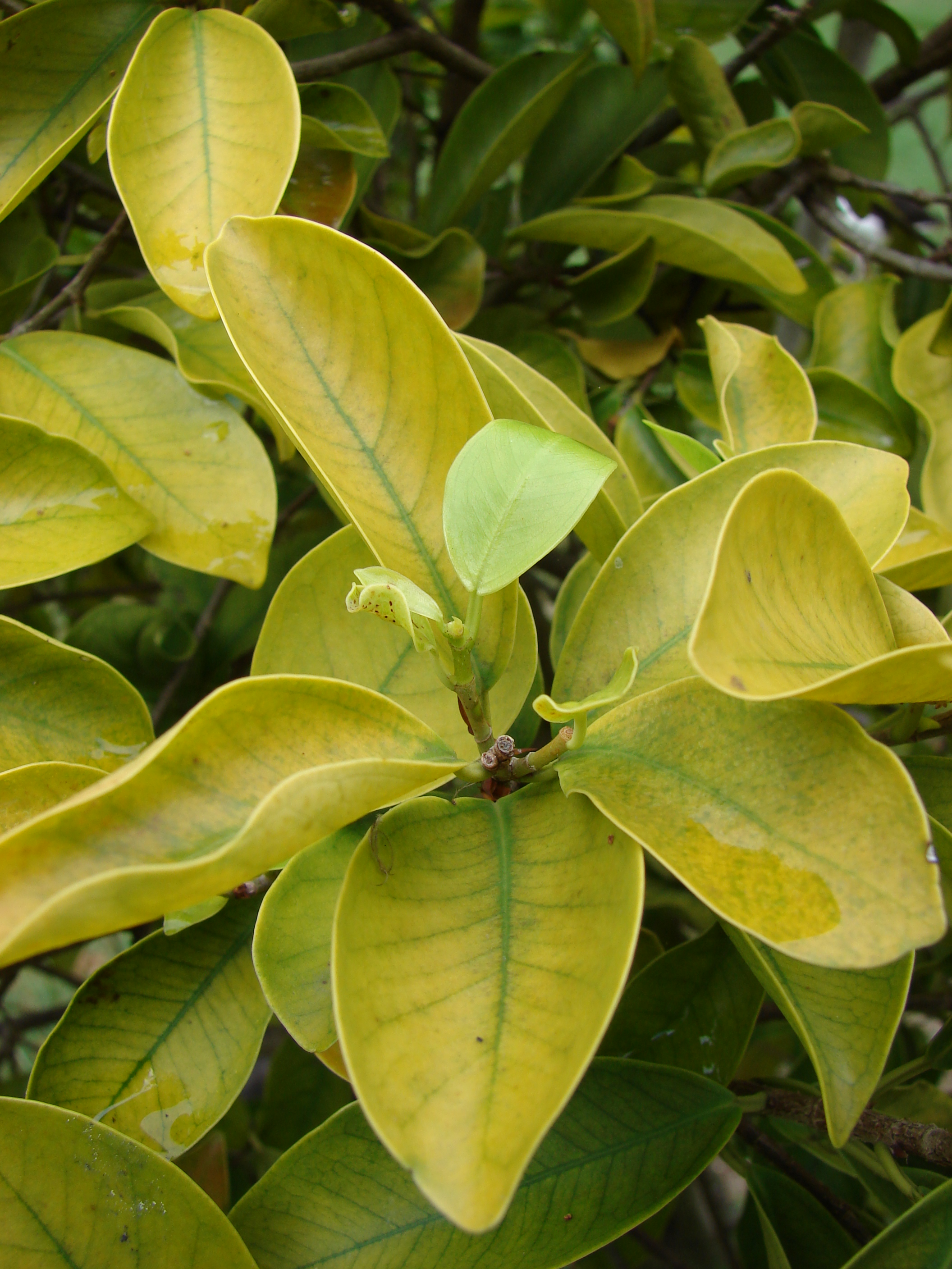 Ficus microcarpa (leaves). Location: Midway Atoll, Old galley Sand Island